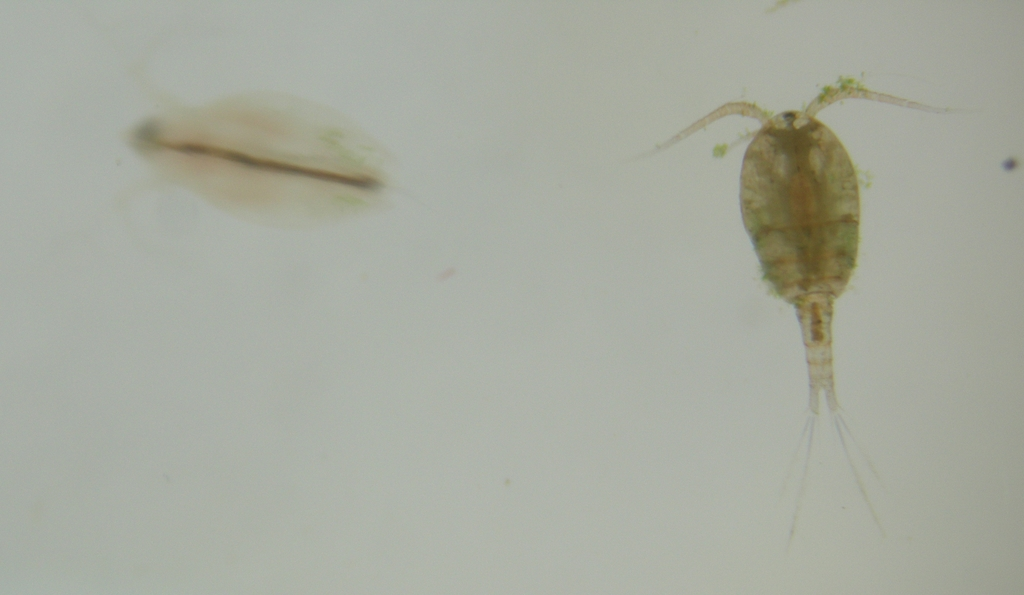 Daphnie and cyclope.